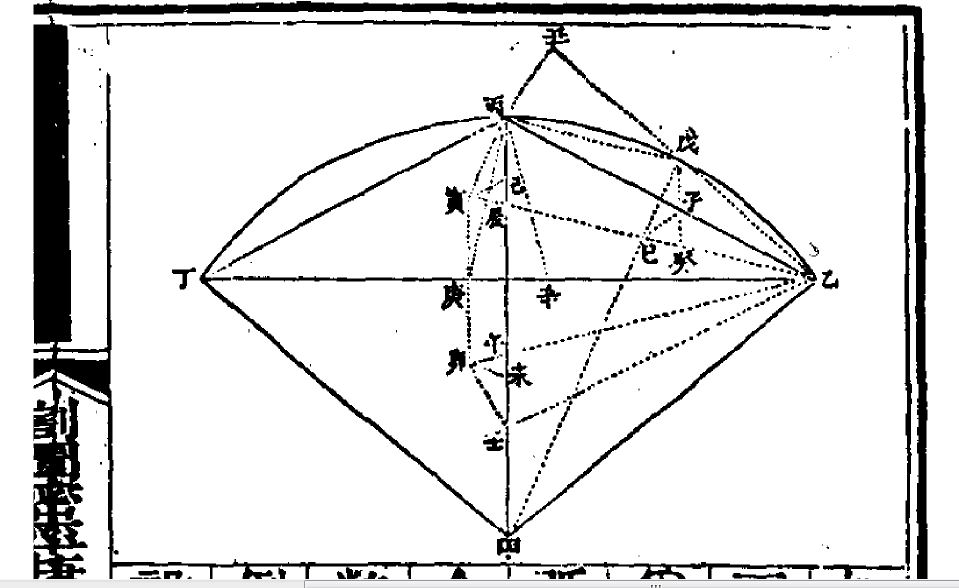 Diagram 1 in Ming Antu's Geyuan Milv Jiefa vol 3